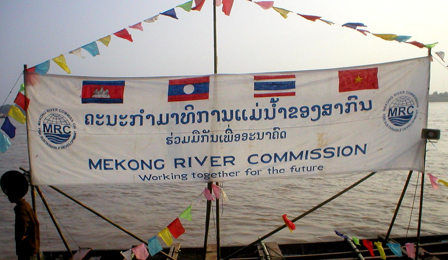 Flag of promotion for the Mekong River Commission in occasion of finishing the new building office in Vientiane, Laos.